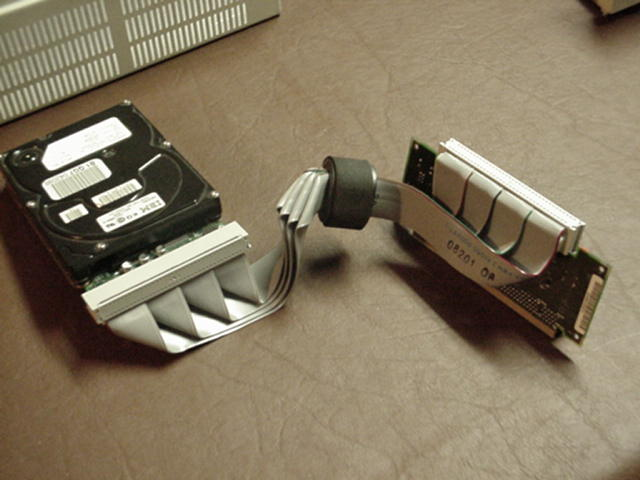 Connections of the unusual IBM PS/2 Micro-Channel Architecture (MCA) cabling, riser card, and hard drive. This single connector conveys both power and data to the drive; mounting a generic IDE or MFM hard drive inside a PS/2 was impossible because separate 4-wire power connectors were not provided. The actual communication standard is unknown, but is strongly suggested to have been ESDI. PS/2 systems could accept only one hard drive; no further internal capacity expansion was permitted.